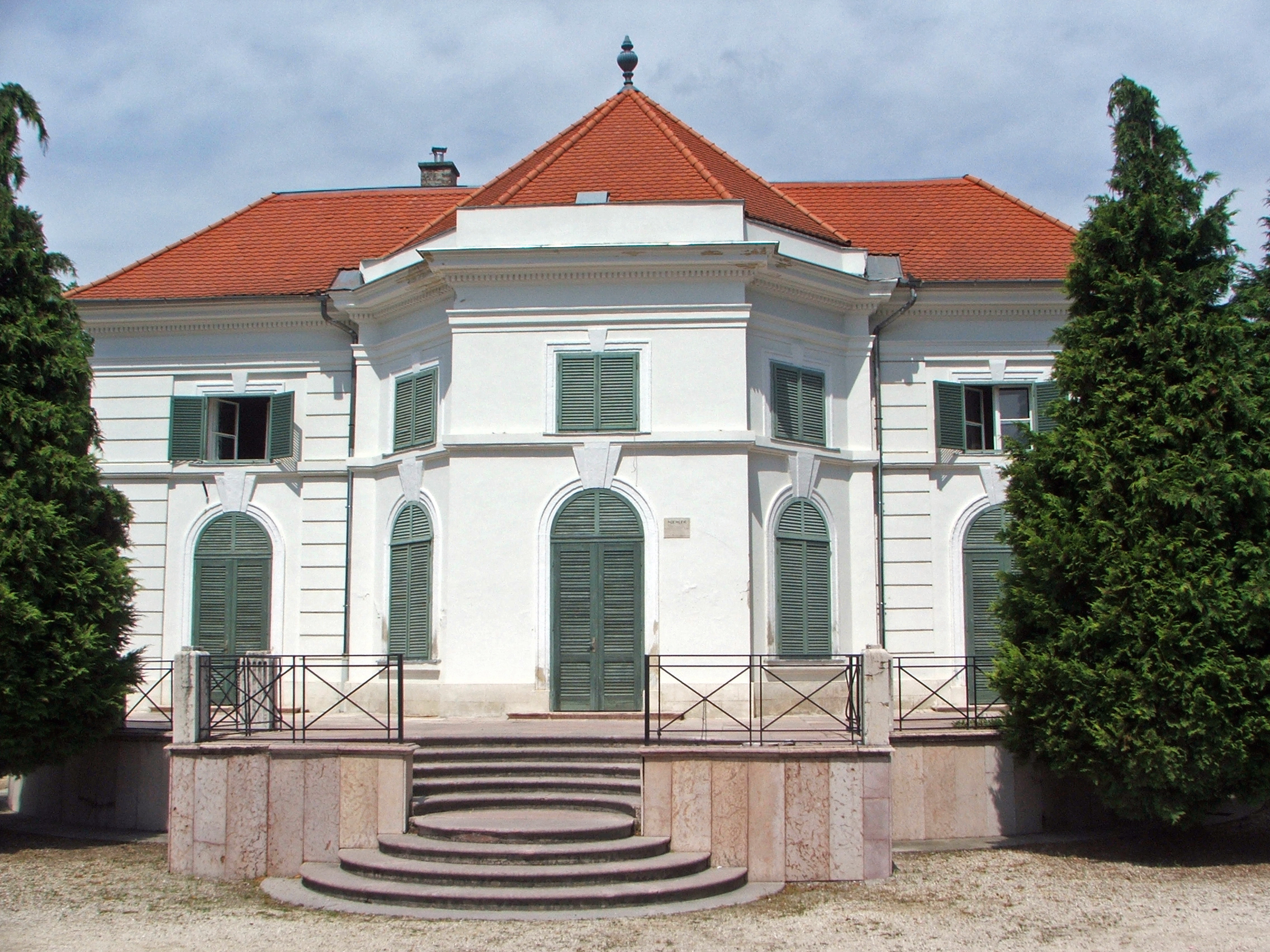 Esterházy garden house (1784) at English garden in Tata, Hungary.